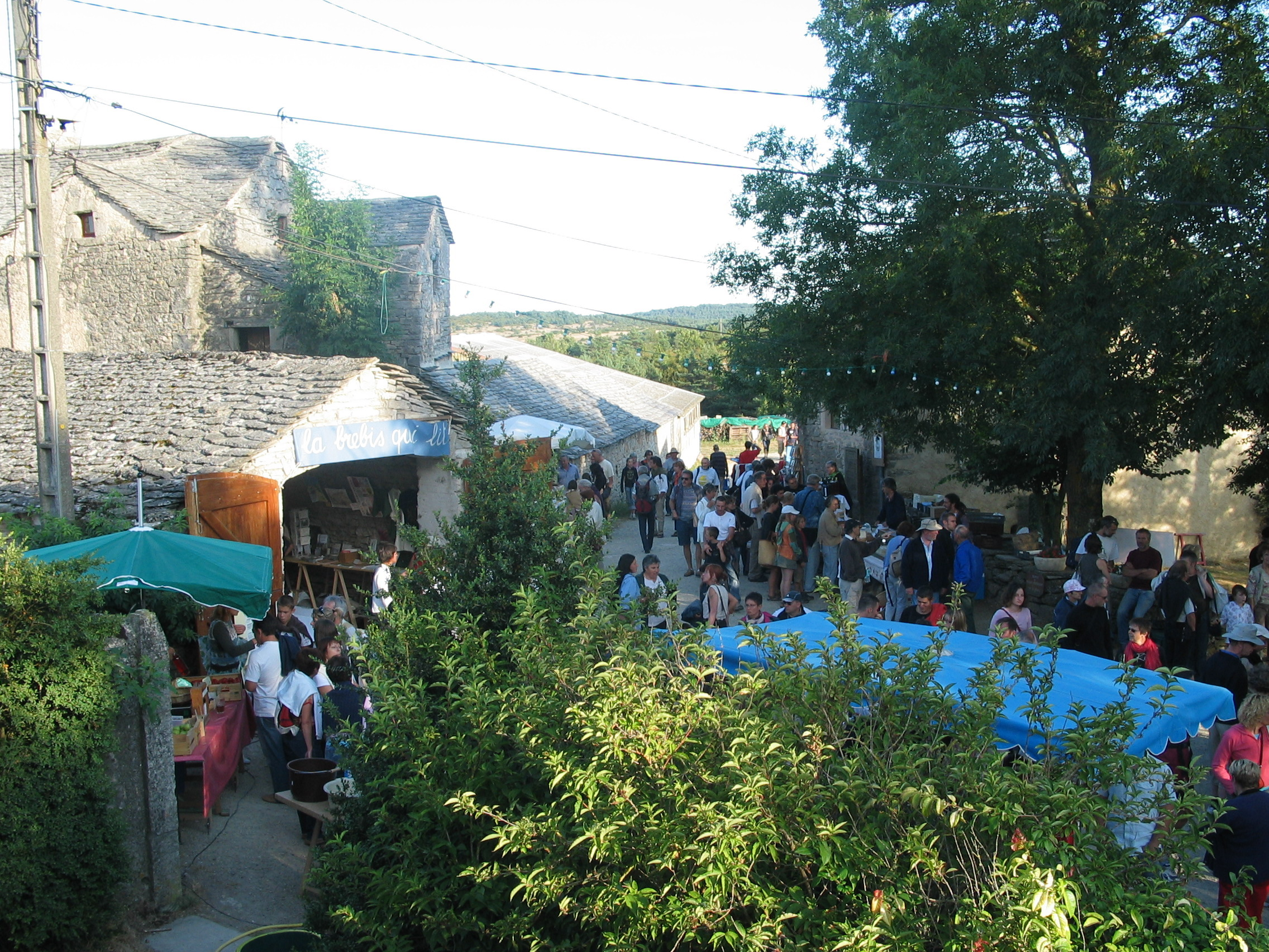 Market at Montredon du Larzac (La Roque-Sainte-Marguerite, Aveyron, Midi-Pyrénées, France).